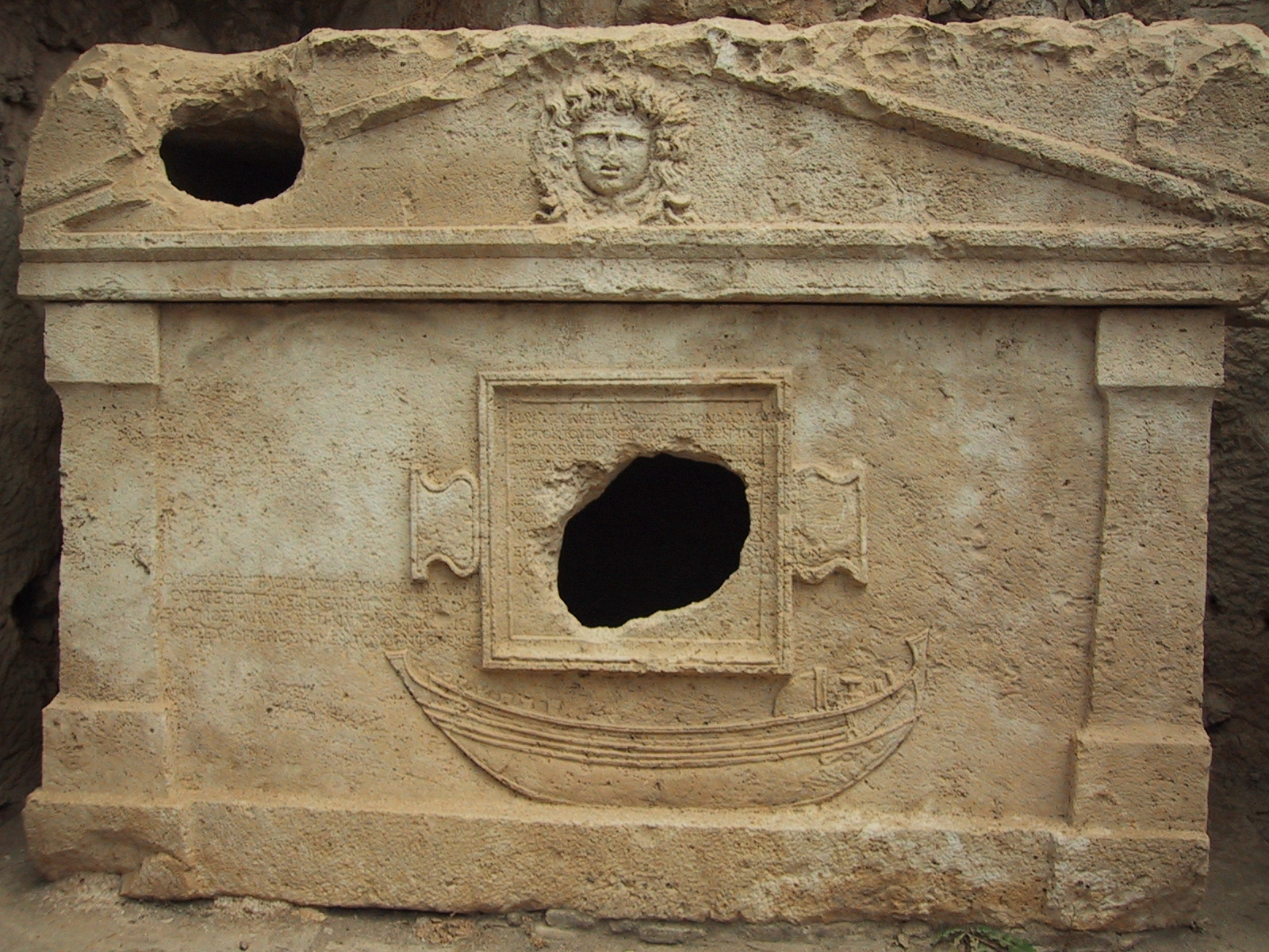 Taken around Olympos, National Park in Turkey. Also note the small animal at left. It's the Sarcophagus of Captain Eudemos